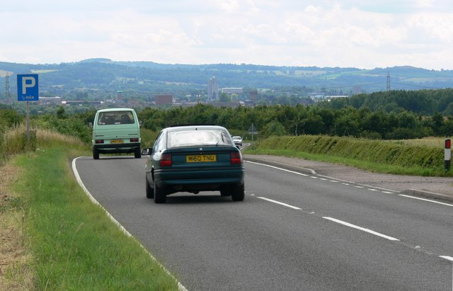 A60 Loughborough Road towards Loughborough